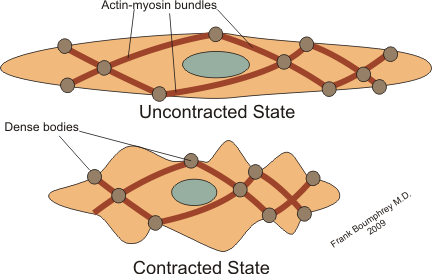 Diagram of contraction of smooth muscle fiber